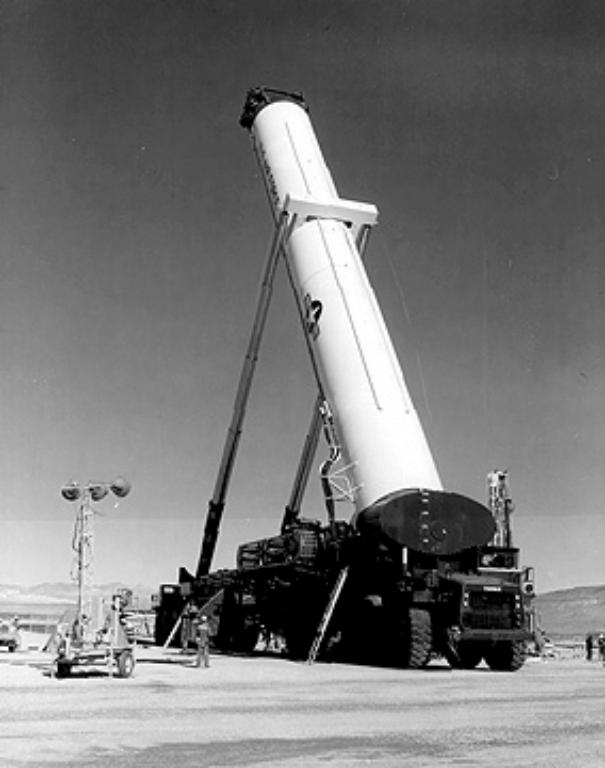 An experimental MX missile transporter, carrying a mock MX Peacekeeper missile, dwarfs workers standing below.